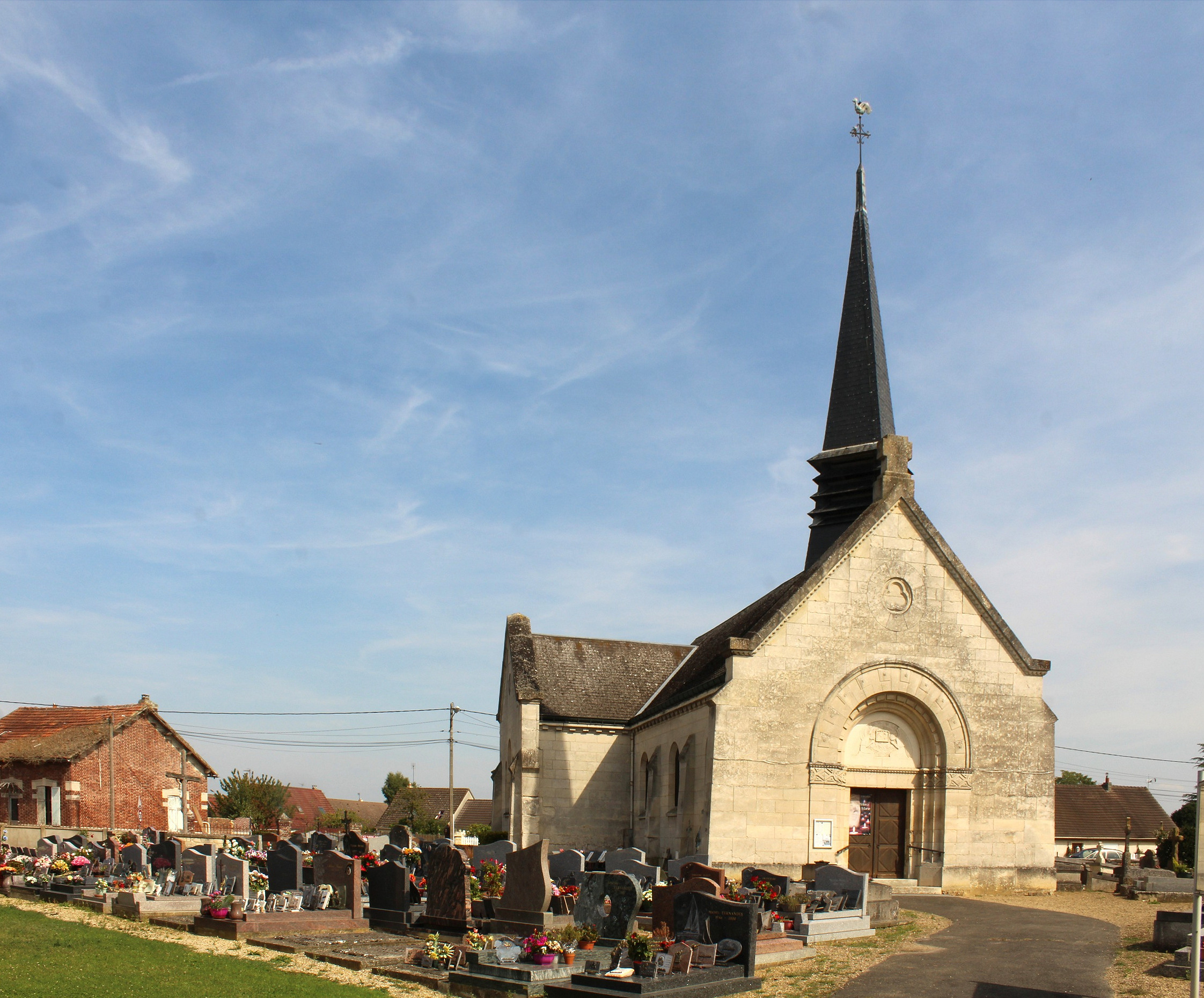 Bailly (Oise), the church Saint-Joseph and the churchyard